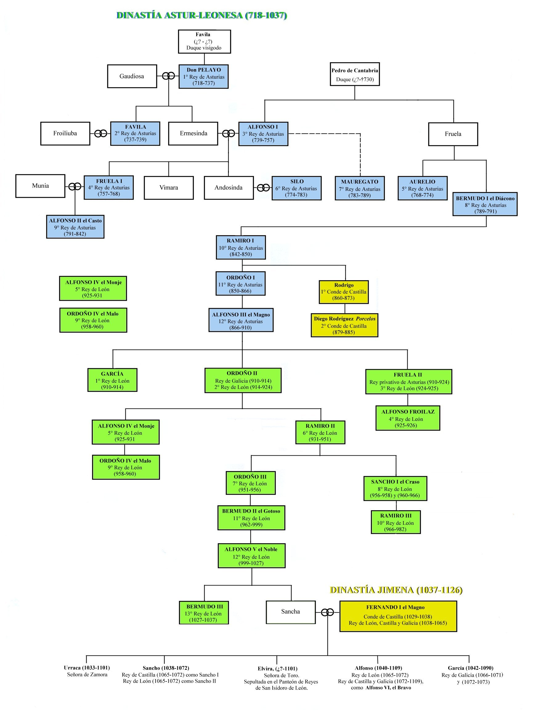 Cronological diagram of Asturian-Leonese monarchs (718-1037)